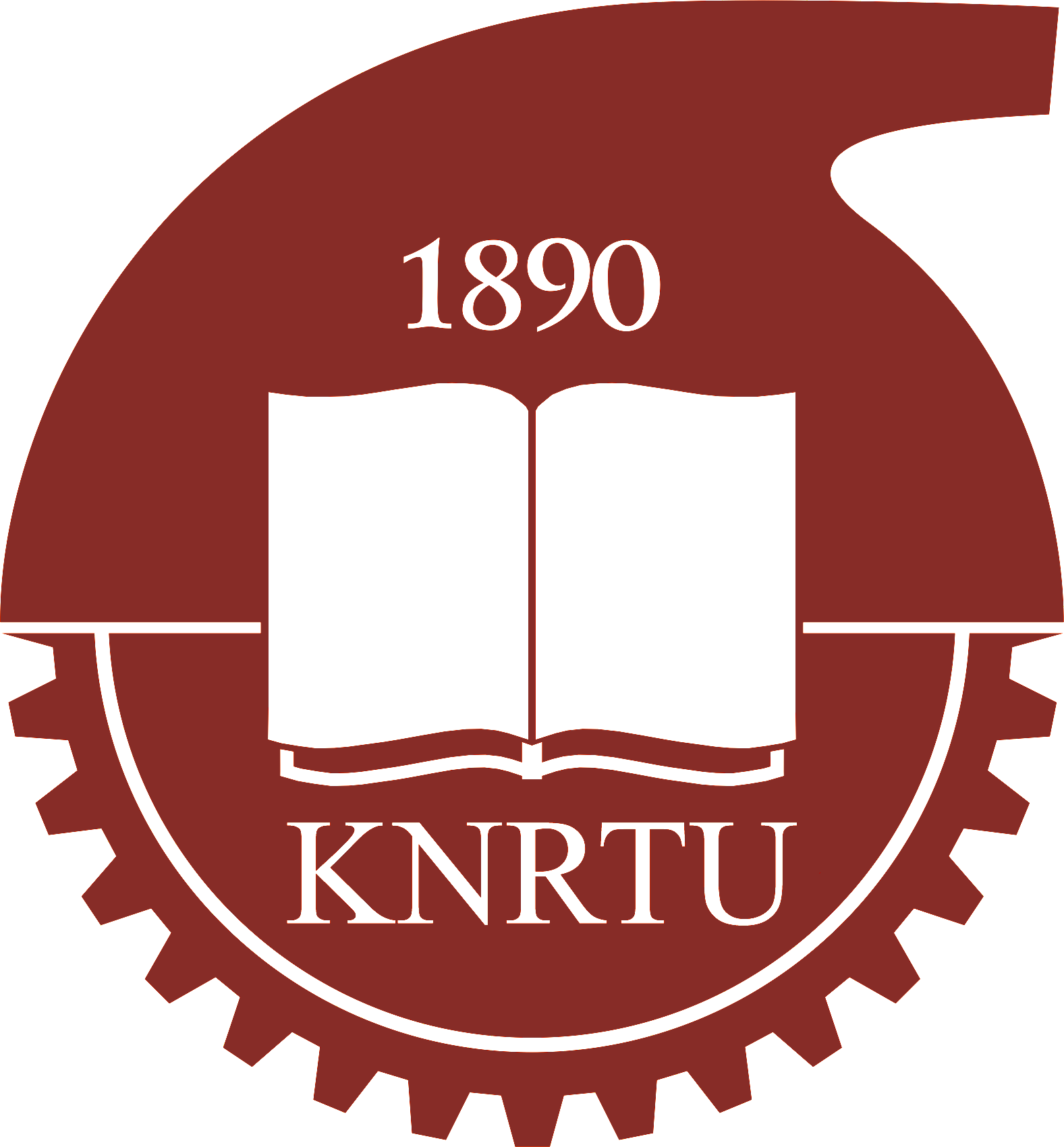 Kazan State Technological University logo